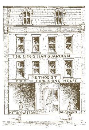 Offices of the Methodist Book and Publishing House at 78 King St. East in Toronto (circa 1838). Image from Centennial of Canadian Methodism (1891).